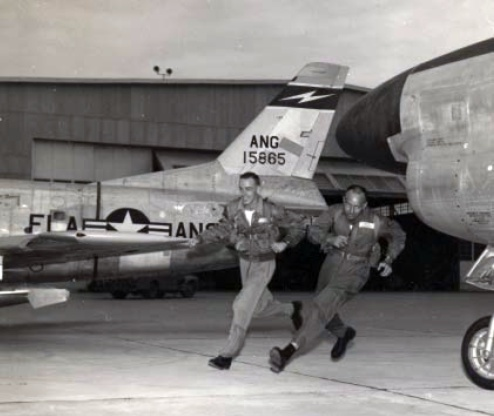 U.S. Air Force pilots Lt. Wally Green and Cap. Dick Locker of the 159th Fighter Interceptor Squadron, 125th Fighter Interceptor Wing, Florida Air National Guard, race to their North American F-86D-25-NA Sabre fighters during an alert scramble at Jacksonville, Florida (USA), in the late 1950s.